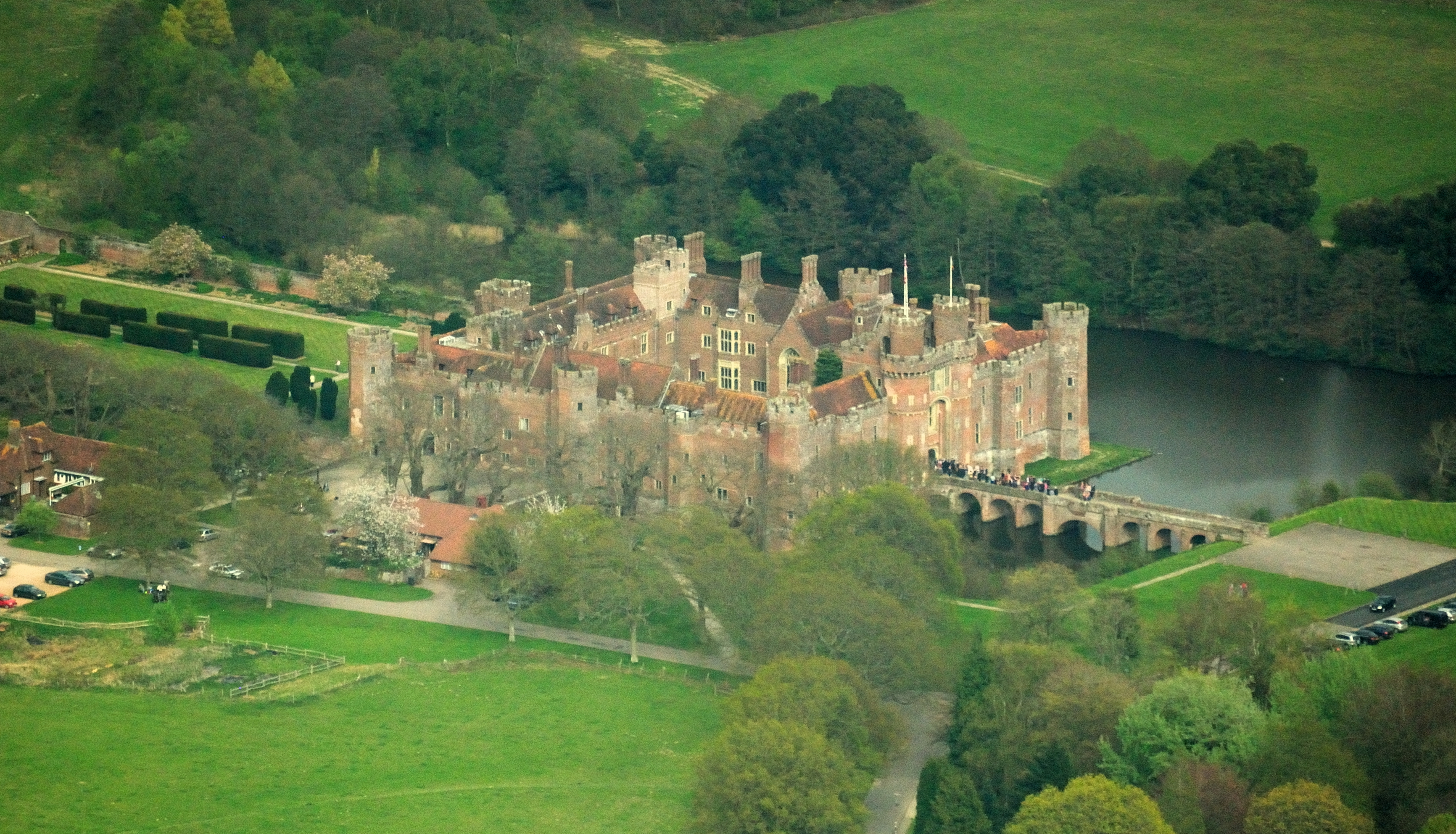 Aerial view of Herstmonceux Castle, East Sussex, England. Nikon D60 f=200mm f/6.3 at 1/2500s ISO 800. Processed using Nikon ViewNX 1.5.2 and GIMP 2.6.6.